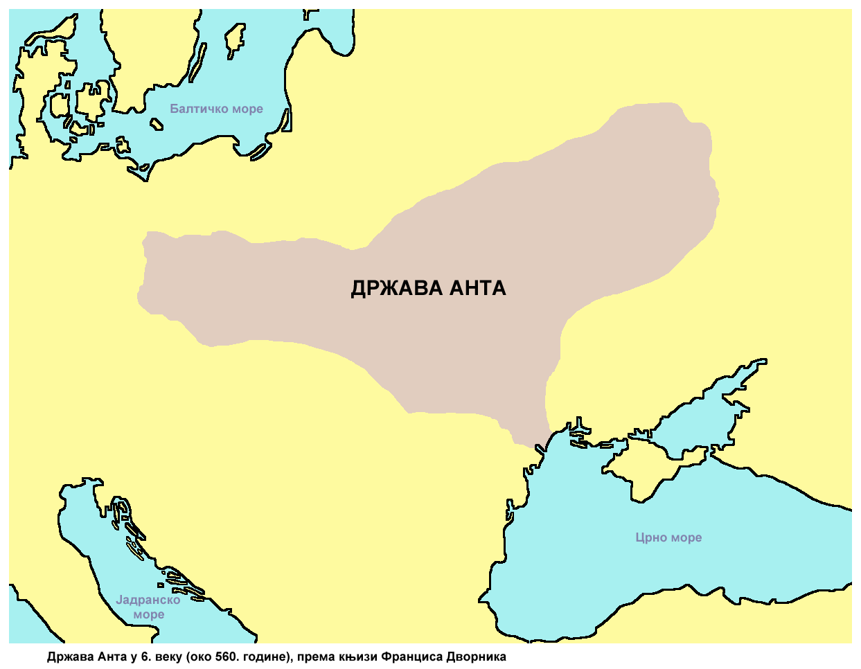 Map showing the State of the Antes in the 6th century (around 560), according to the book of Francis Dvornik.